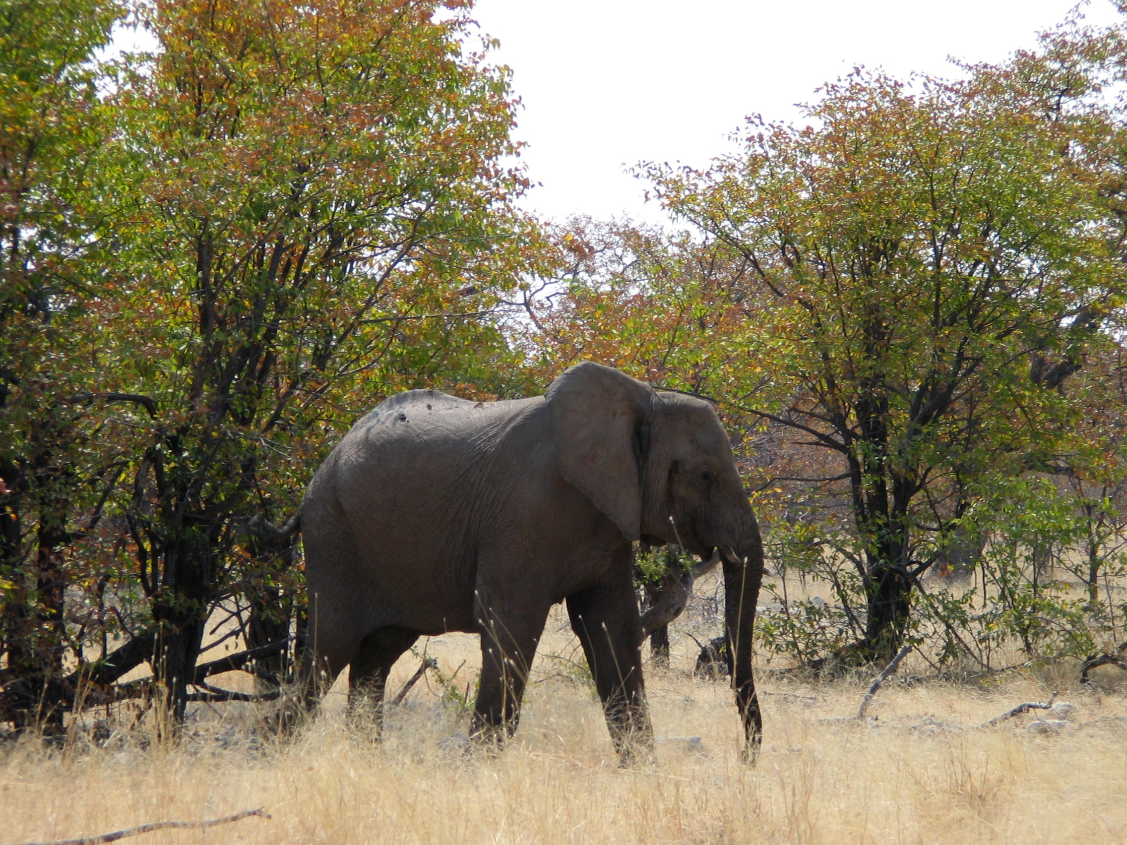 Elephant near Olifantsbad, Etosha pan, Namibia